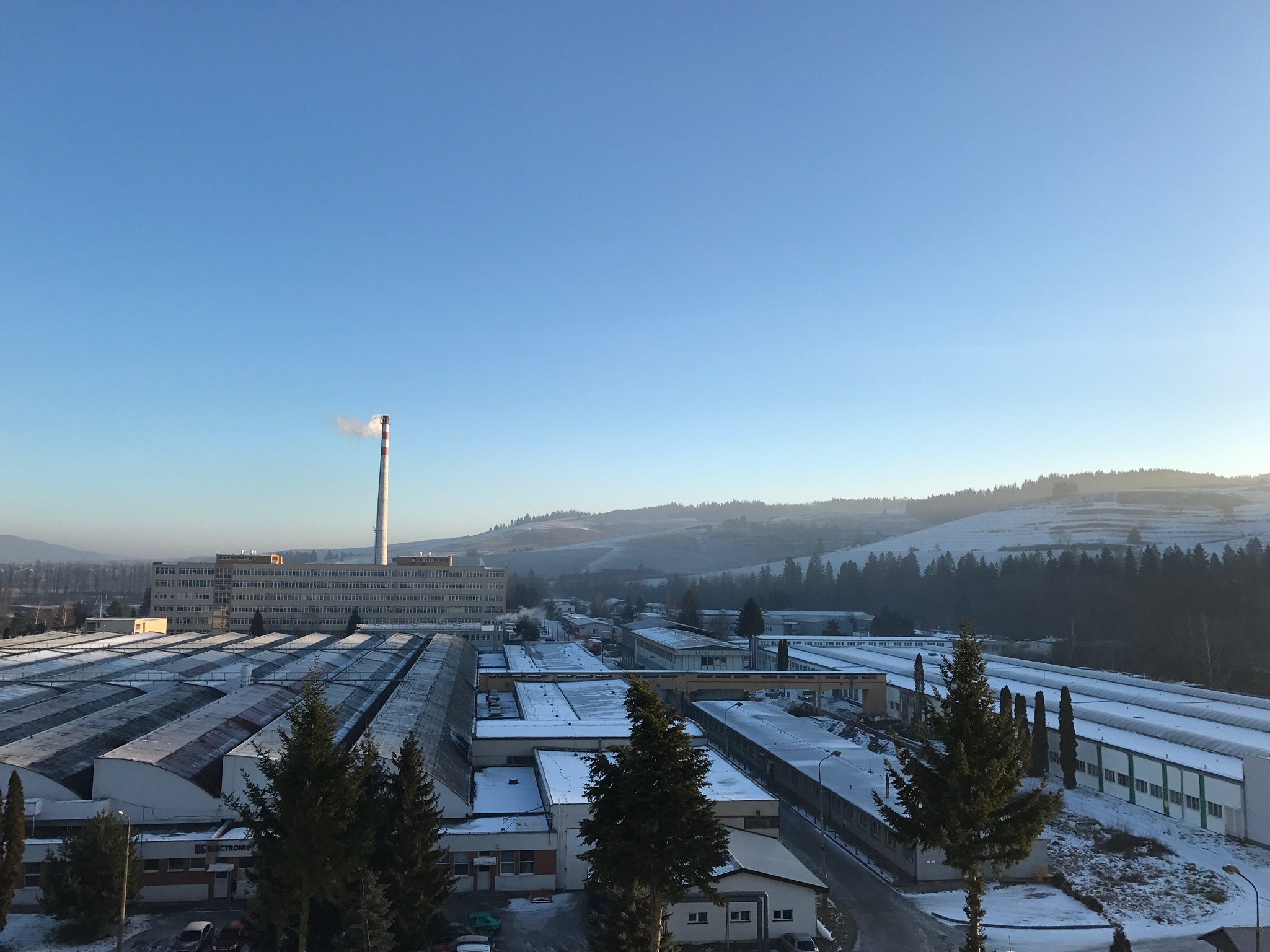 The industrial zone of Nizna contains mainly warehouses, minor manufactories, and office buildings.